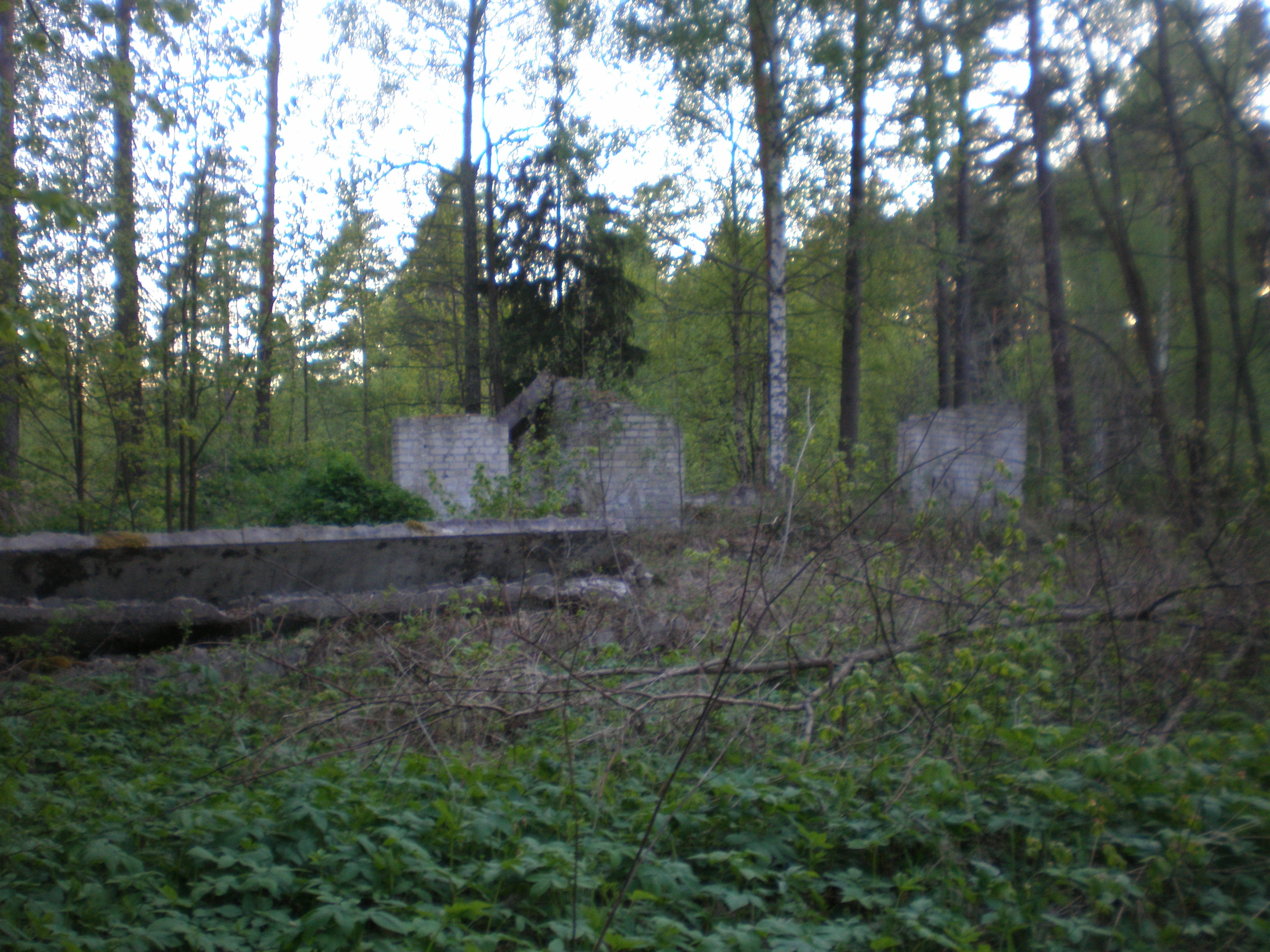 Gulbiniškiai' Missile Base